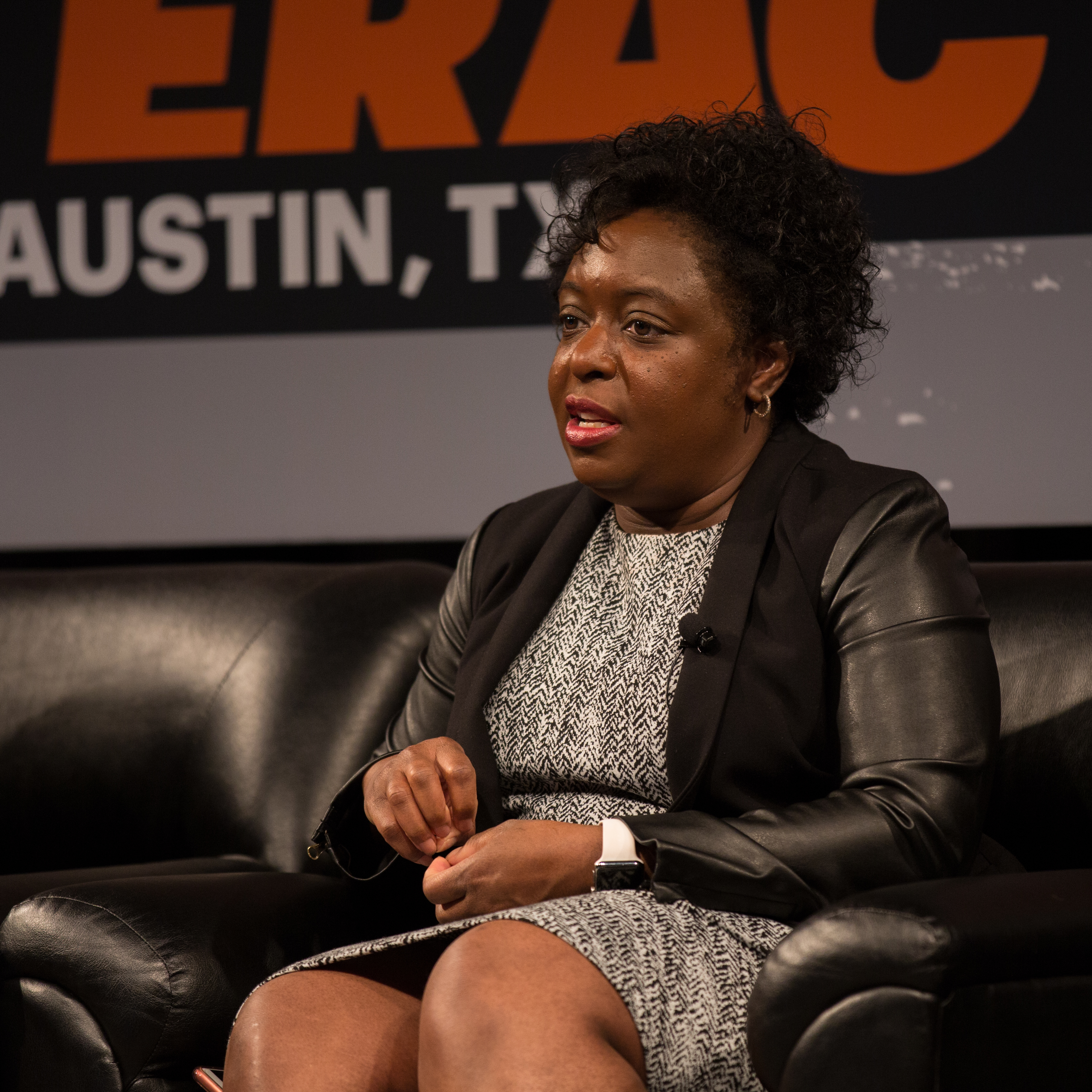 Kimberly Bryant (technologist)